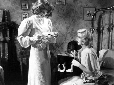 Promotional still from the 1937 film Stage Door, published in National Board of Review Magazine